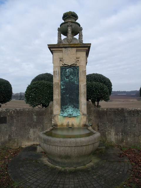 Memorial to Lord George Bentinck, M.P. Influential politician and reformer of horseracing. Died aged 46, of a heart attack, close to this spot, in 1848.